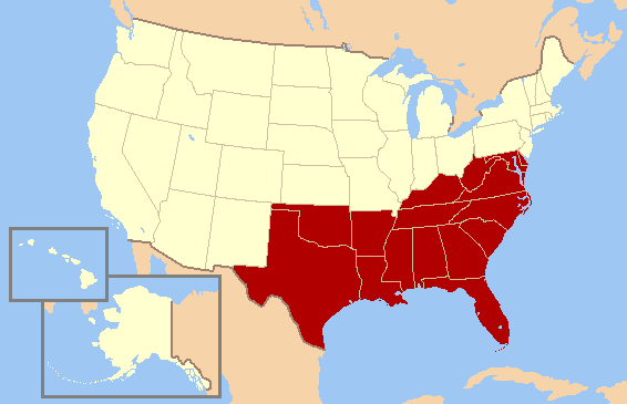 The southern United States, as defined by the United States Census Bureau.